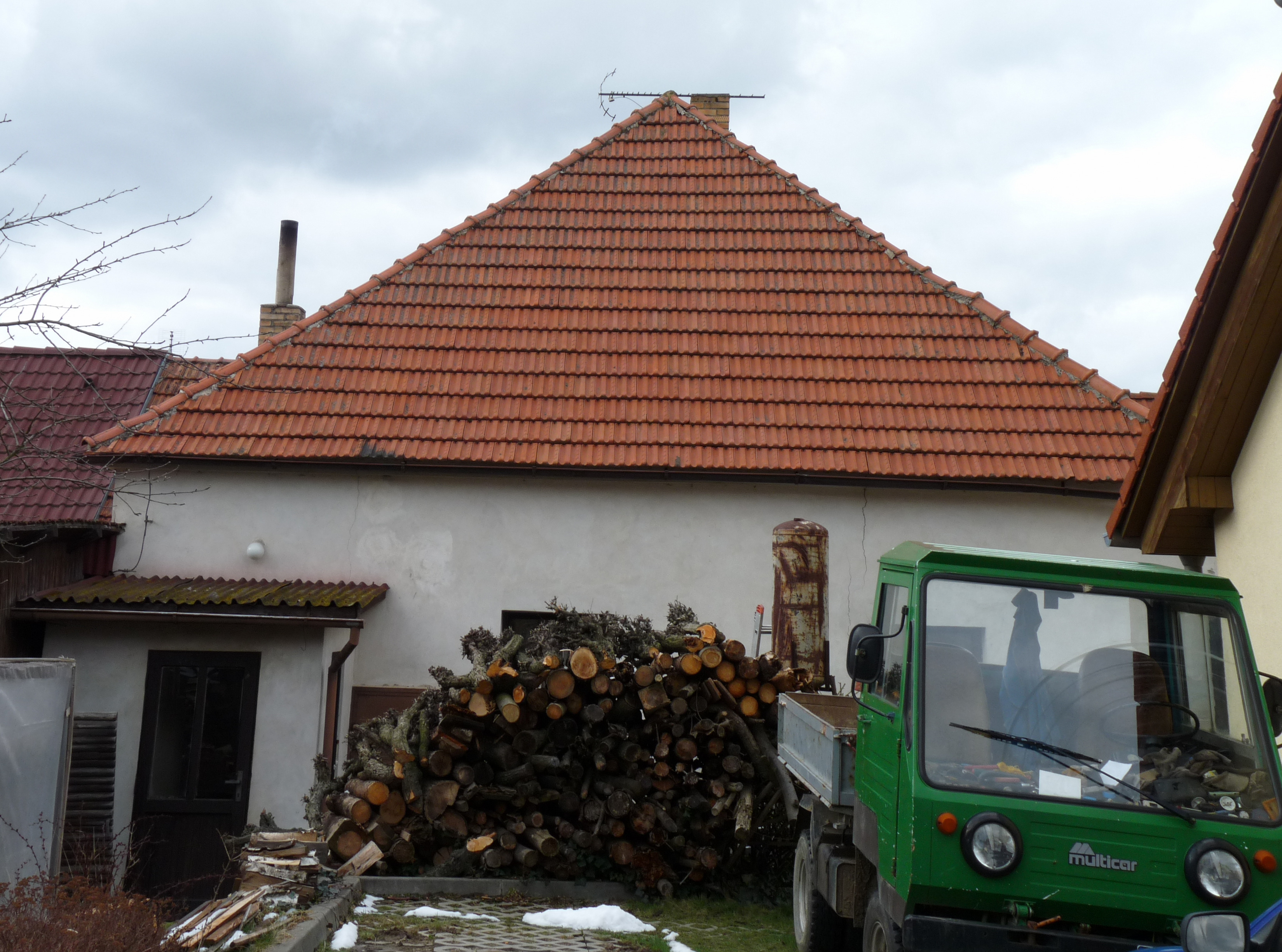 House No 76, former synagogue in the municipality of Košetice, Pelhřimov District, Vysočina Region, Czech Republic.